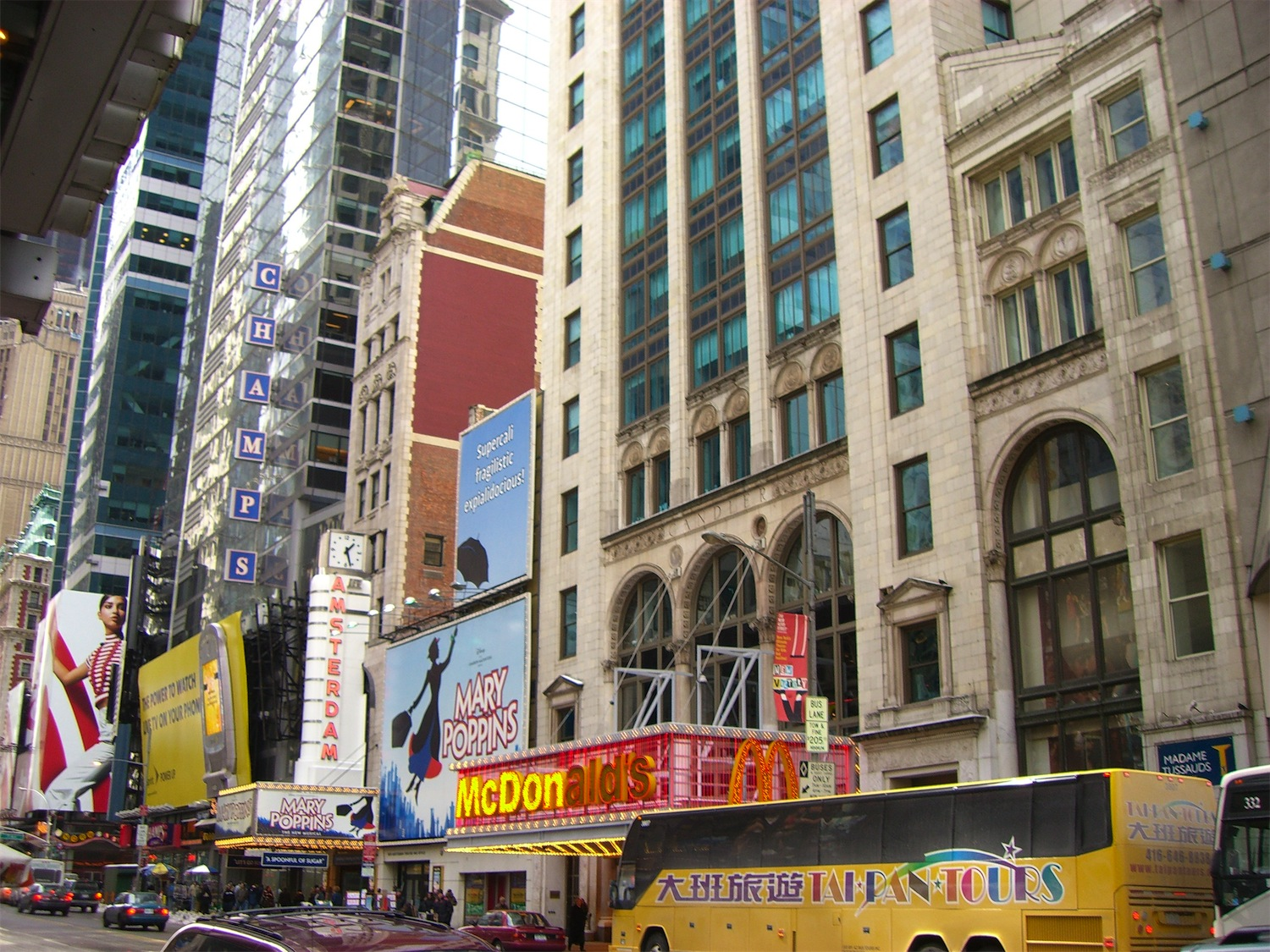 Asa Griggs Candler's Times Square building.